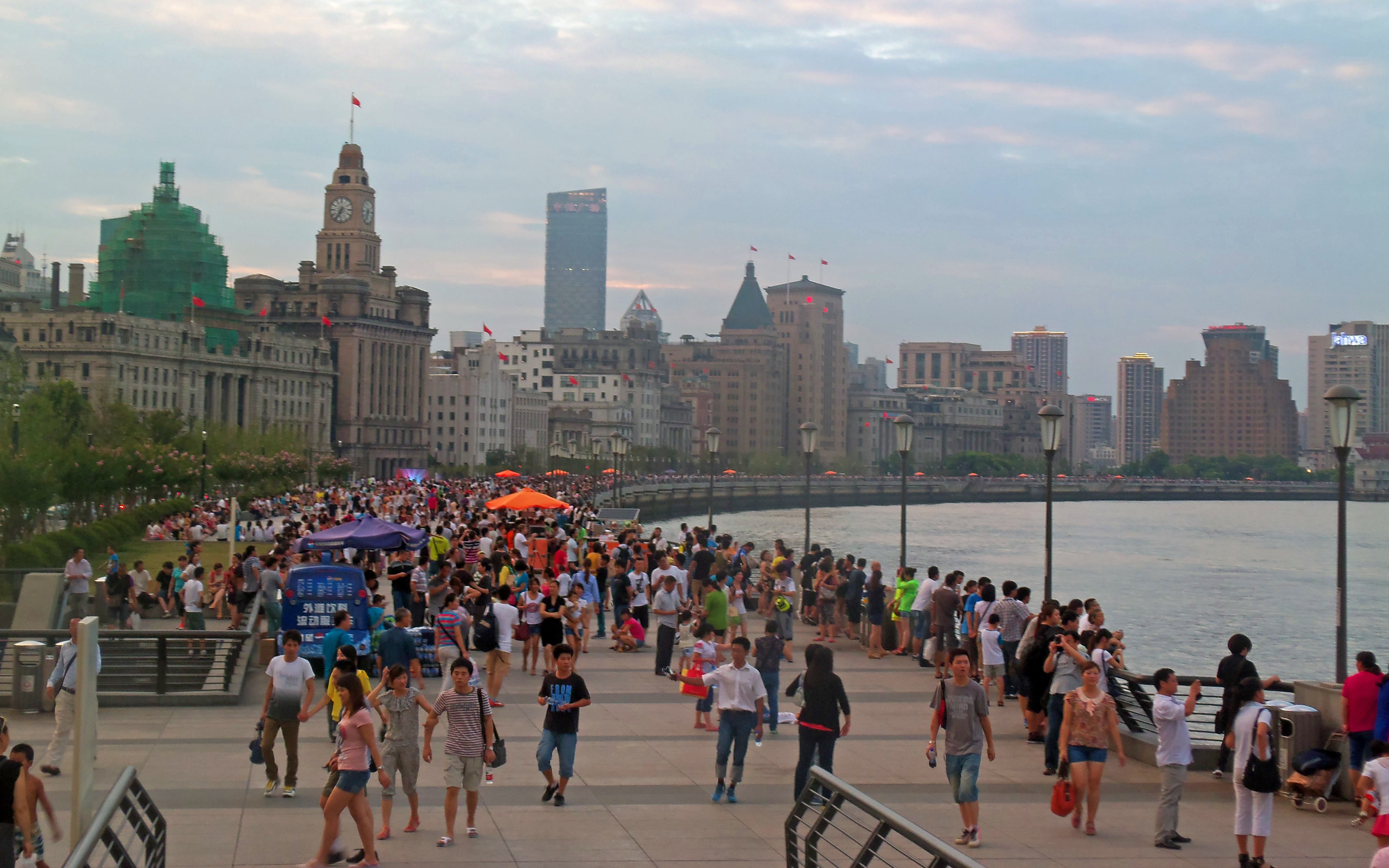 The Bund in Shanghai on a warm summer evening